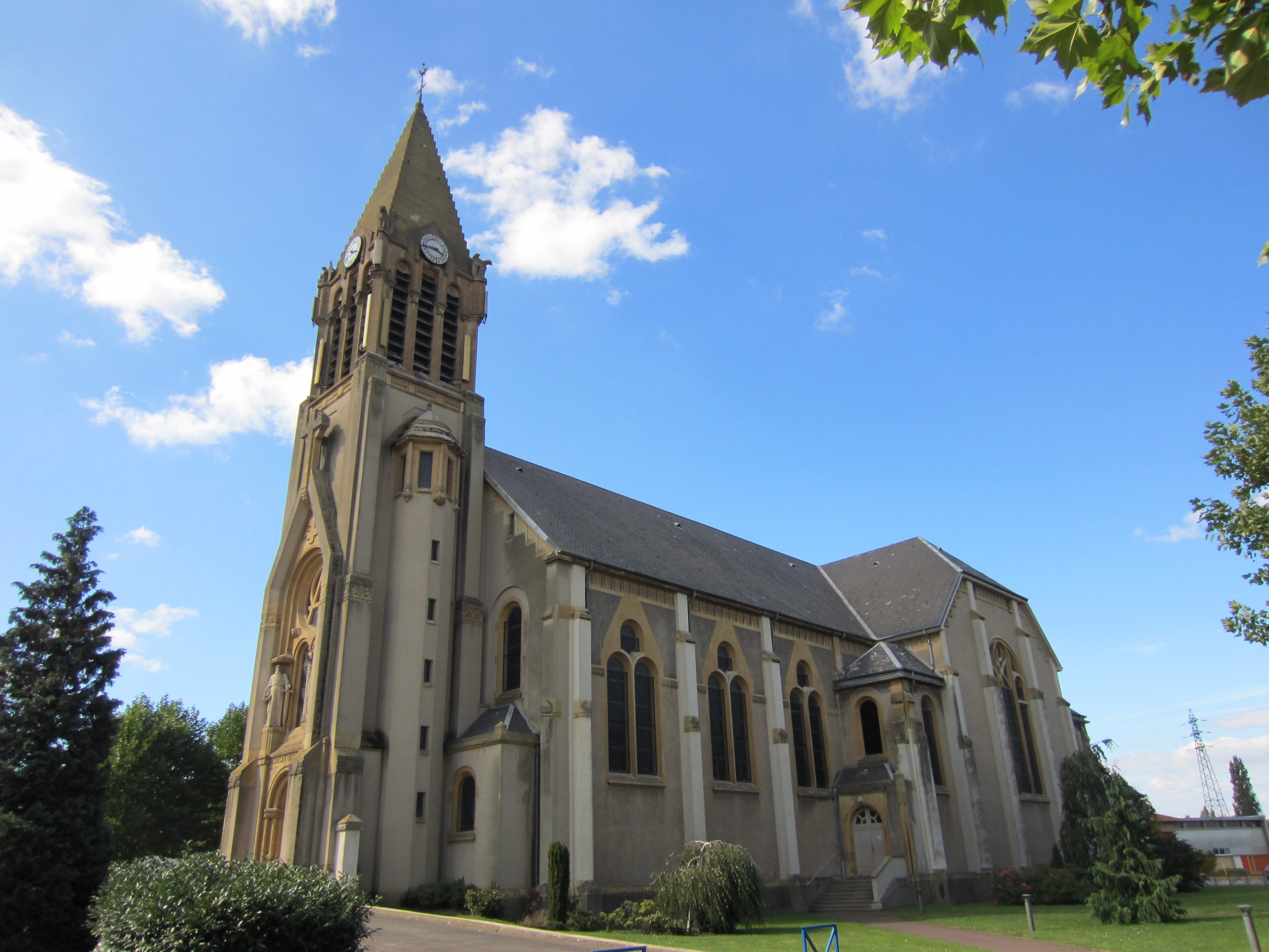 Description eglise Talange Date31 August 2011Sourcemon appareil photoAuthorAimelaimePermission (Reusing this file) eglise Talange